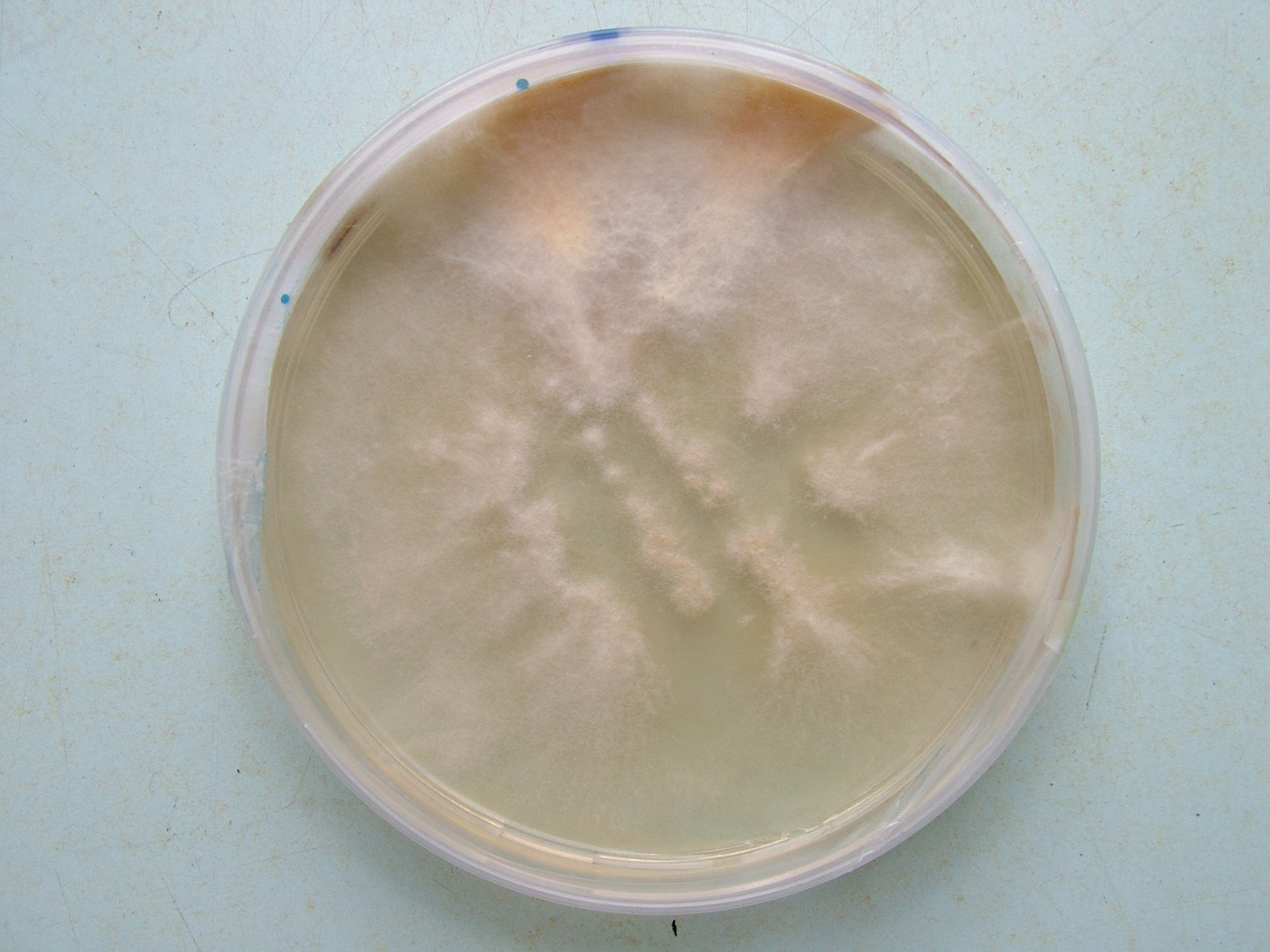 Culture of Gloeophyllum trabeum, showing white hyphae and a colouration of the growth medium (potato-dextrose-agar)